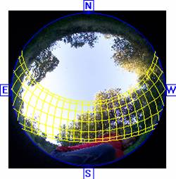 Creative Commons attribution "photo by S.B. Weiss". Hemispherical photograph from an open canopy reach of San Francisquito Creek. Overlay of the sunpath enables calculation of solar exposure.